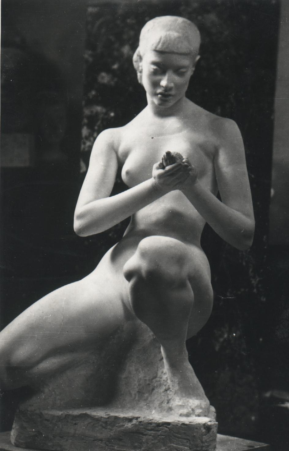 created by Nancy Rosenfeld; now in public domain. Location: Sheba Medical Center